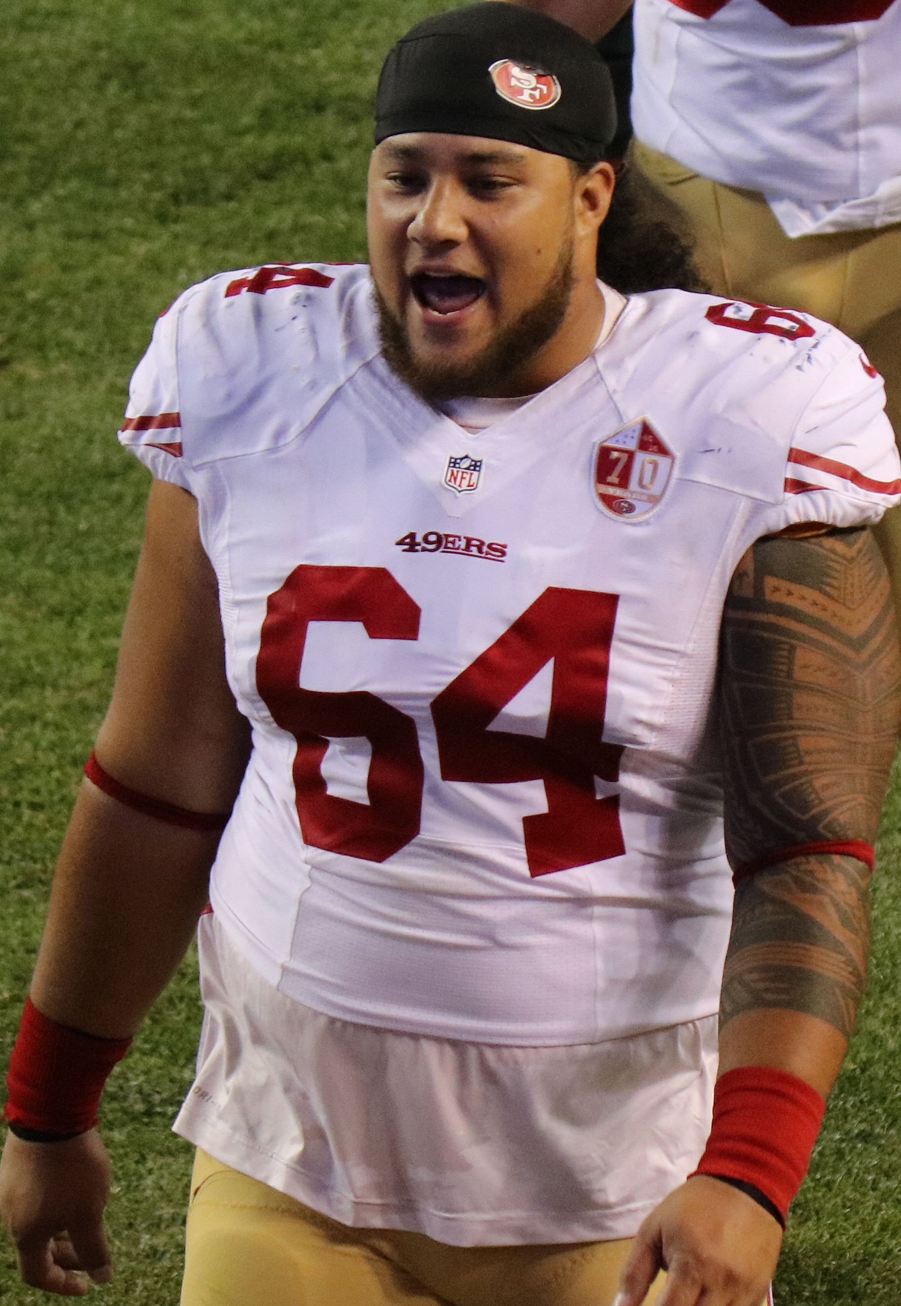 Mike Purcell, a player on the National Football League.